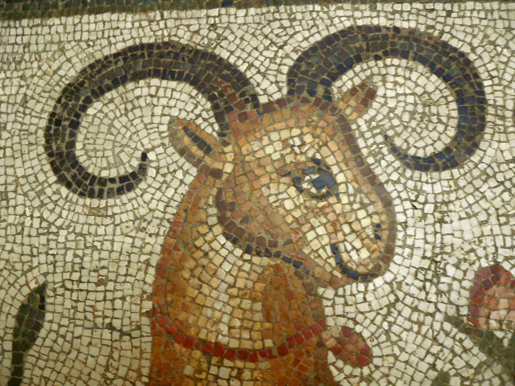 Ibex head, detail of a scene representing a phoenix with roses. Pavement mosaic (marble and limestone), 2nd half of the 3rd century AD. From Daphne, a suburb of Antioch-on-the-Orontes (now Antakya in Turkey).